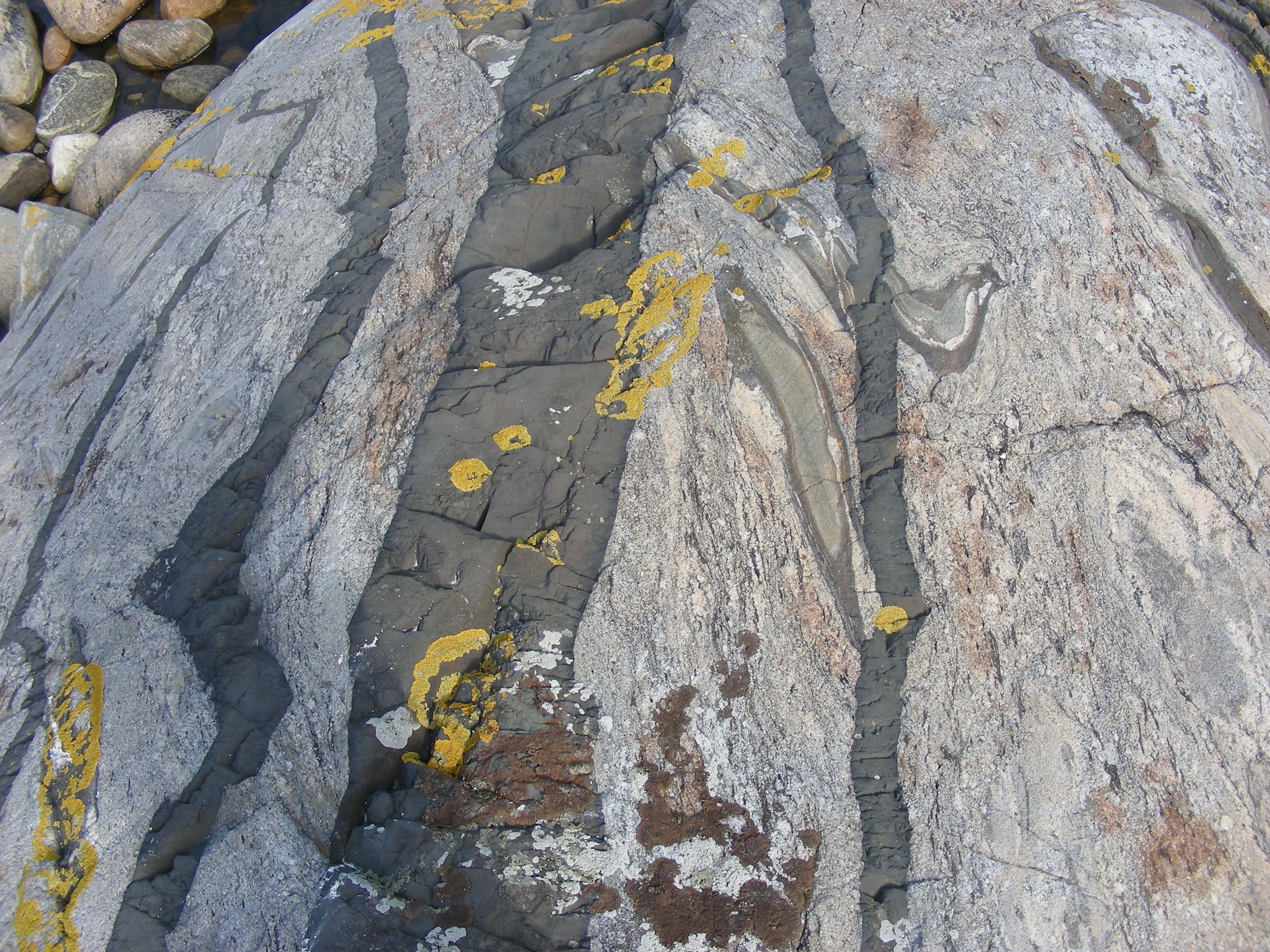 Dykes of dark-coloured dolerite (about 1100 million years old) cutting light-coloured migmatitic paragneiss (1800 million years old) at Yttre Ursholmen in Kosterhavet National Park in the Koster Islands in Sweden.